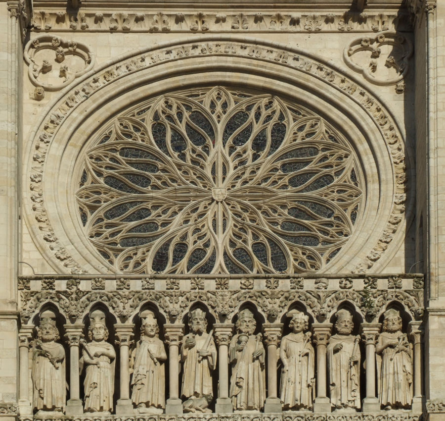 Amiens Cathedral, France